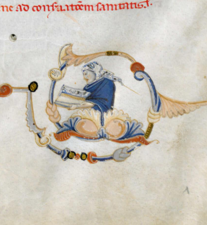 Marginal image from Tacuinum sanitatis, Laurentiana Plut.18 sin.7 fol.1